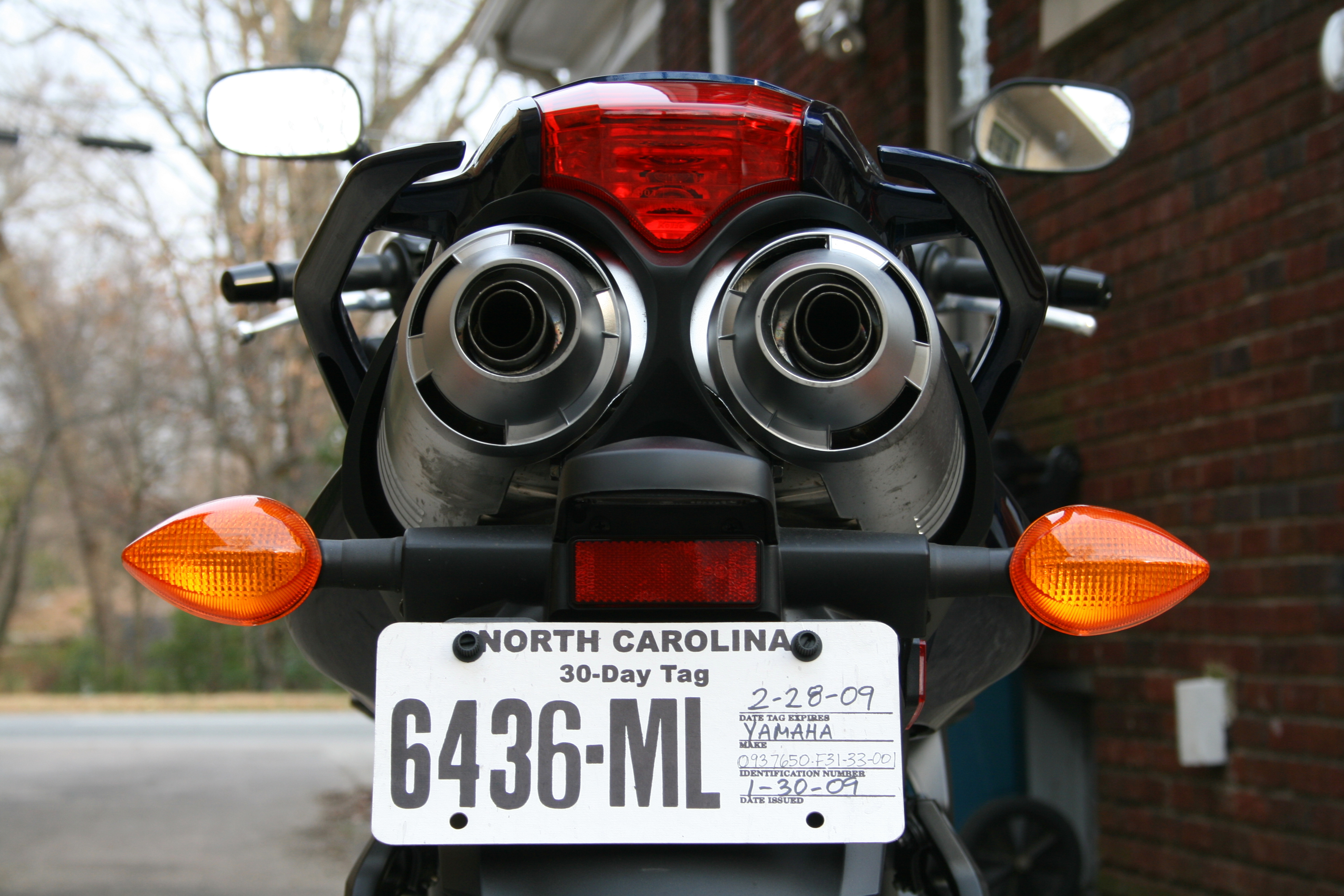 The rear end of a 2008 Yamaha FZ6 motorcycle wearing a temporary North Carolina license plate.